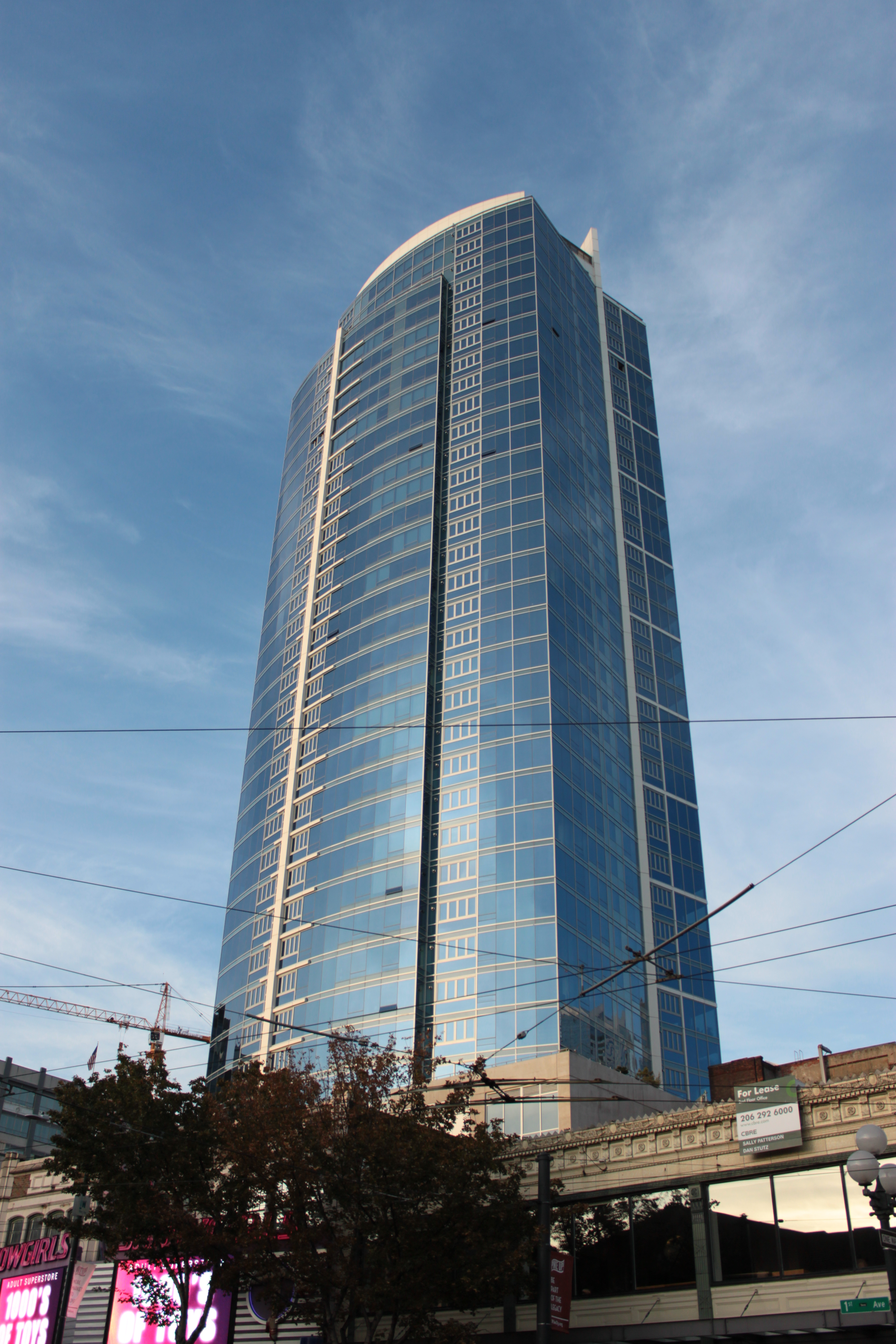 Fifteen Twenty-One Second Avenue